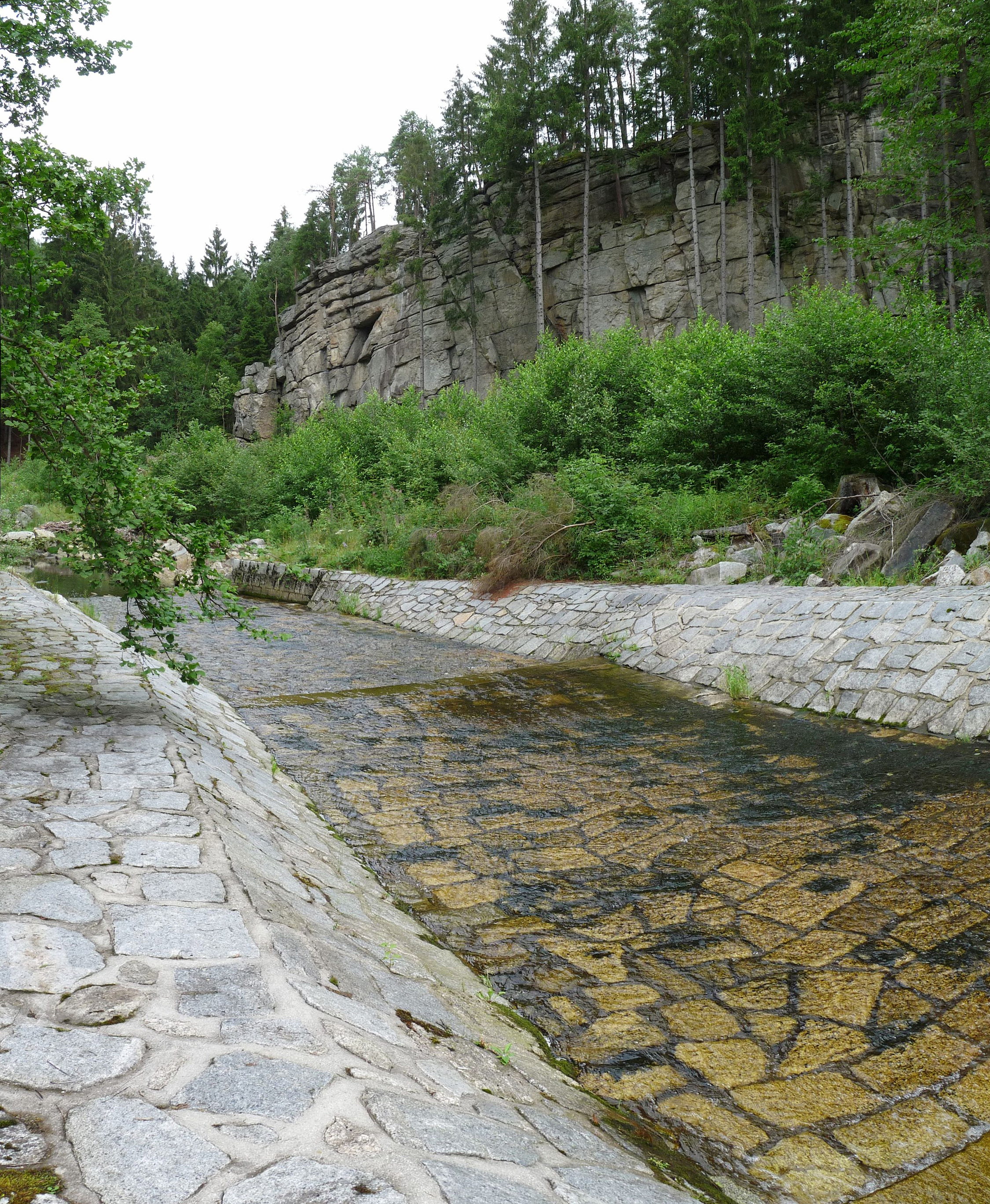 Sokolčí rocks at the Černá River under Soběnov Dam between the villages of Hradiště and Děkanské Skaliny in Český Krumlov District, South Bohemian Region, Czech Republic. Česky: Skalní masiv Sokolčí u říčky Černá pod přehradou Soběnov mezi vesmi Hradiště a Děkanské Skaliny v okrese Český Krumlov.